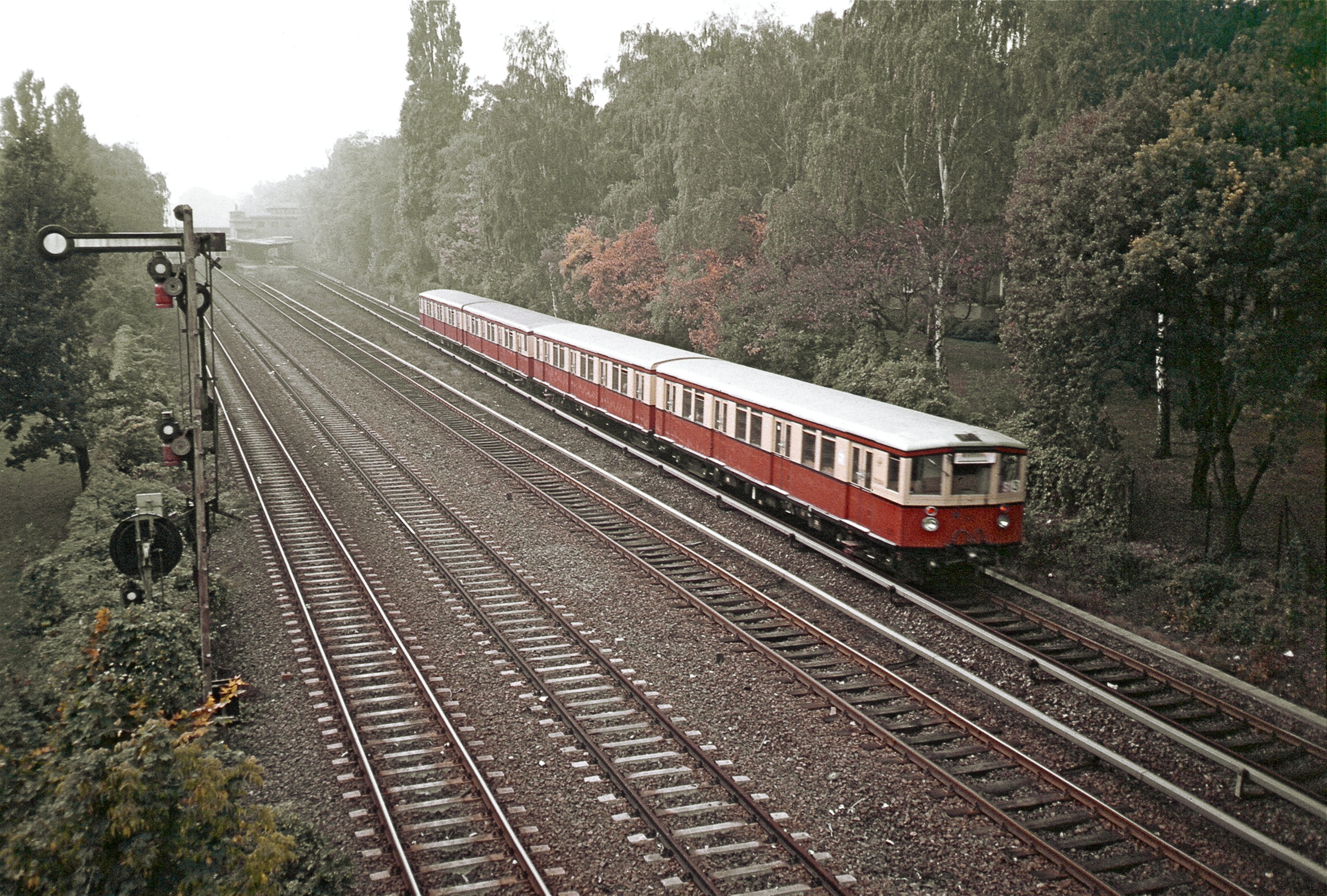 Class ET 165 near Sundgauer Straße station, Berlin